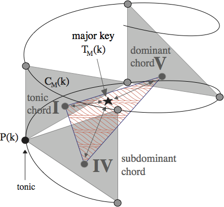 Part of the Spiral Array Model by Elaine Chew. Generating of a major key representation as the center of effect of its I, IV, and V chords, which are in turn generated as the center of effect of their defining pitches.